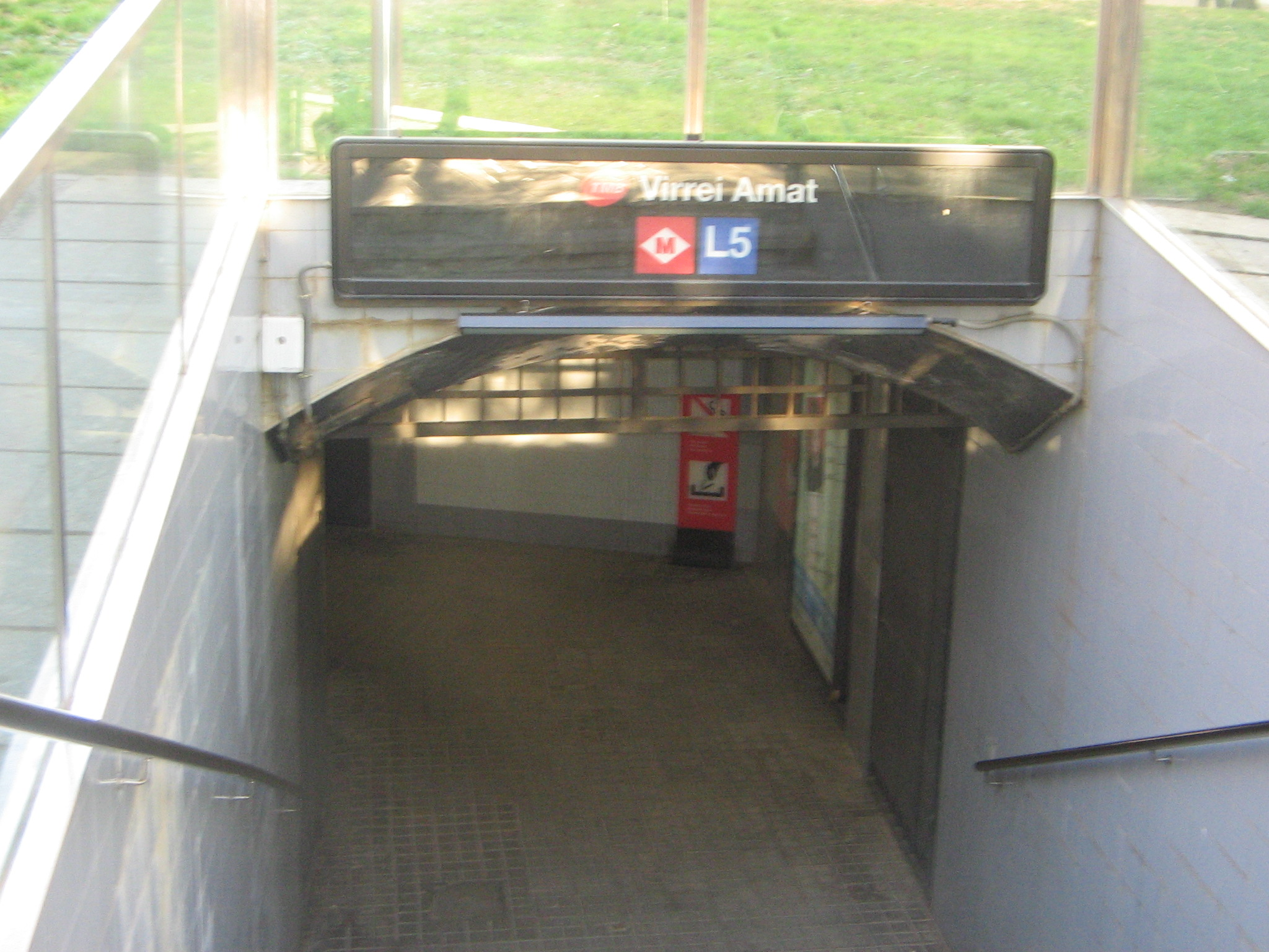 Virrei Amat station.